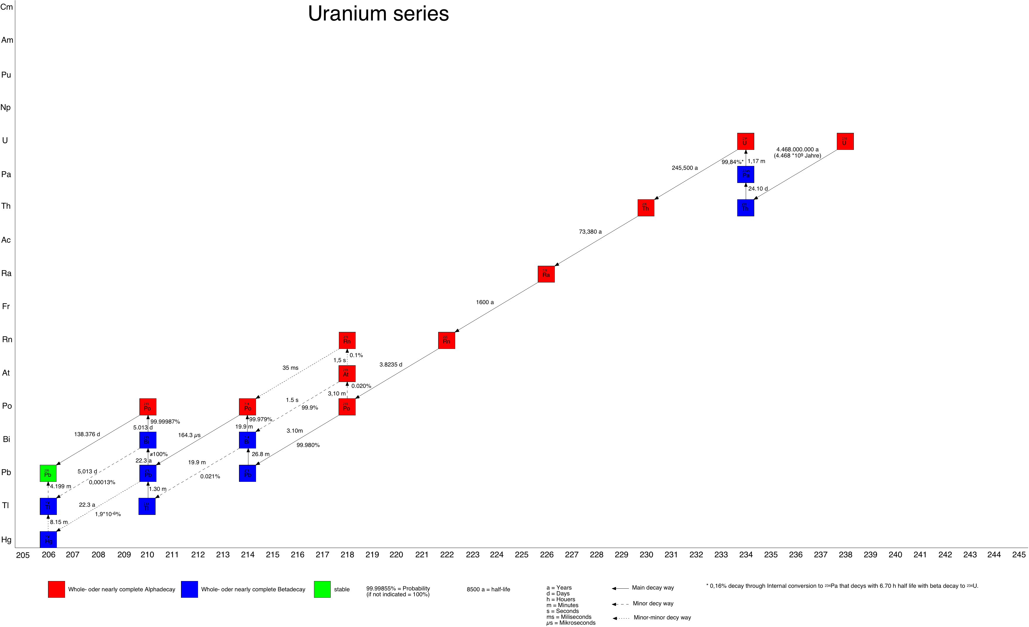 The Uranium series.